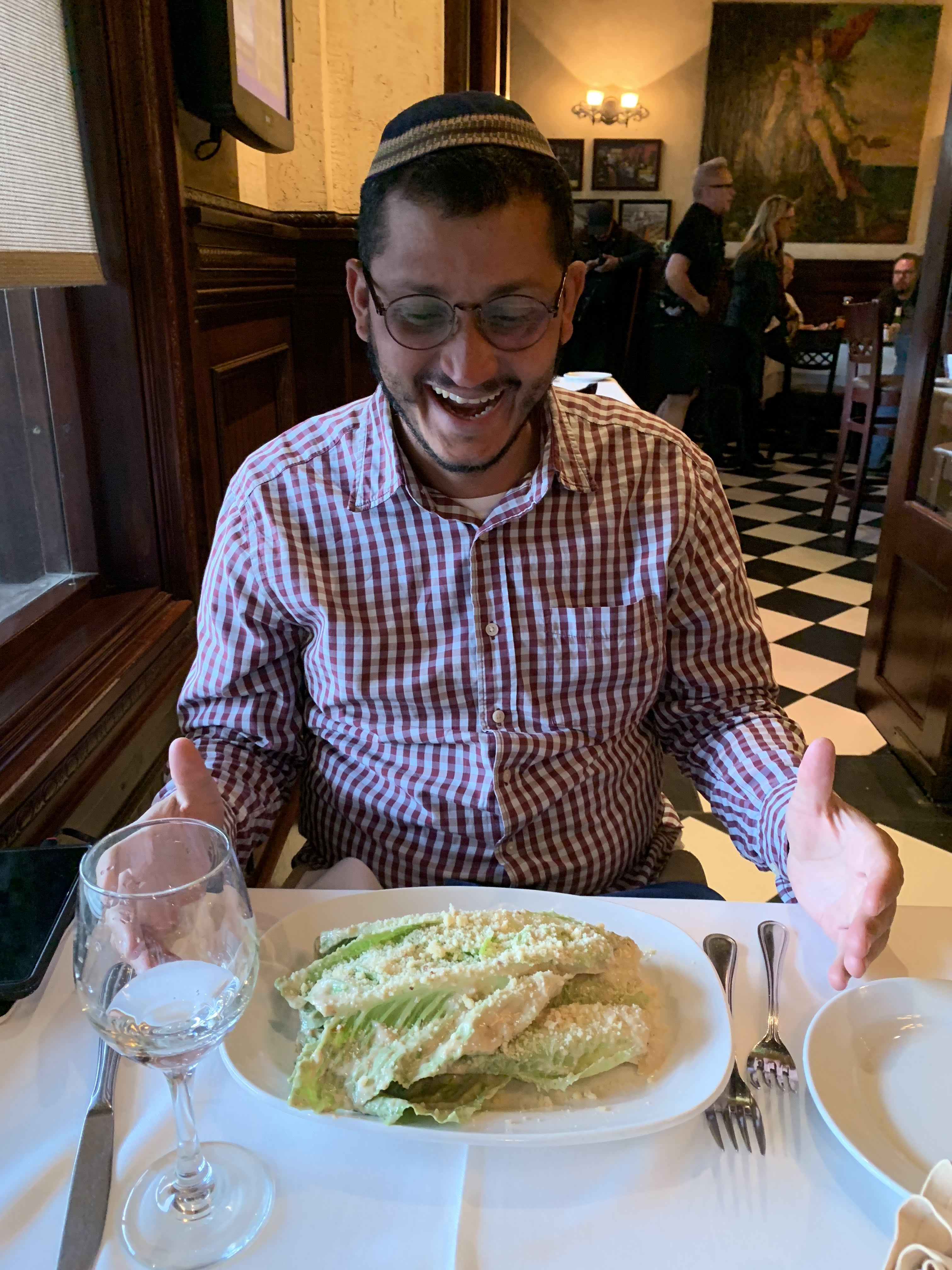 Caesar's salad at Caesar's restaurant 2018